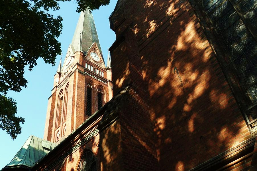 Church of St.Stanislaw Kostka in Szczecin Poland.